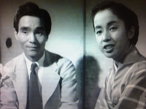 Jukichi Uno and Tomoko Naraka in Japanese movie Ganbaku no ko(Children of Hiroshima)